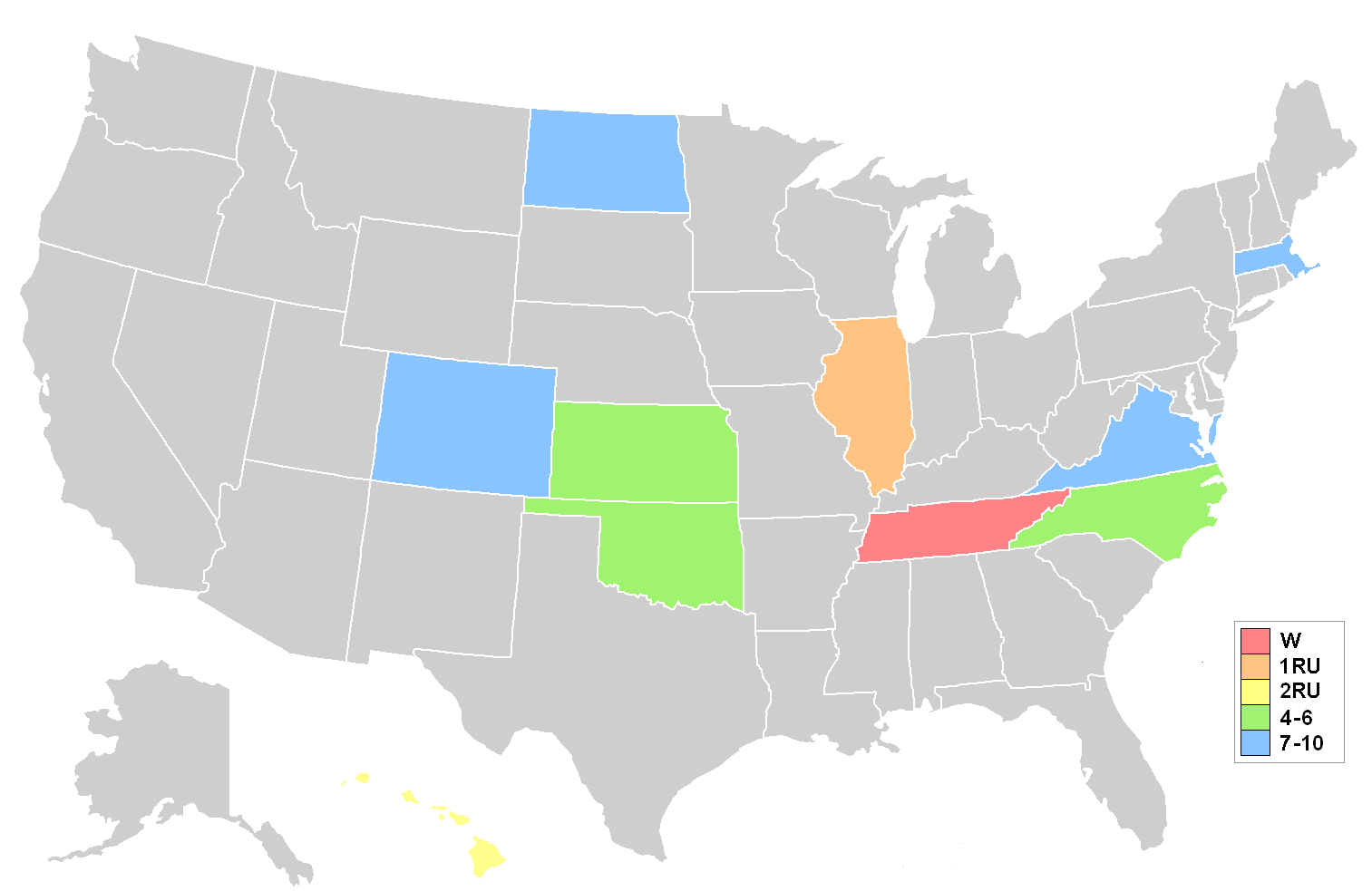 Map showing placements at the Miss Teen USA 1997 pageant. Key on graphic shows colour coding for break down of placements.